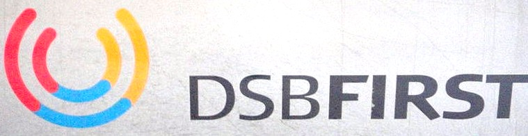 Original photo by Morten Haagensen